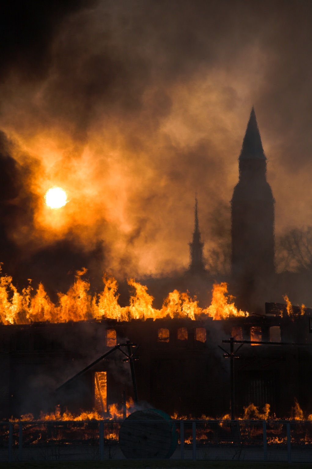 The VR warehouses on fire on May 5th 2006. Helsinki, Finland. The National Museum of Finland in the distance.